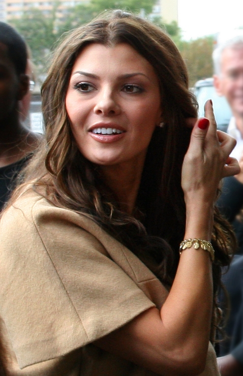 Ali Landry at the 2006 Toronto International Film Festival